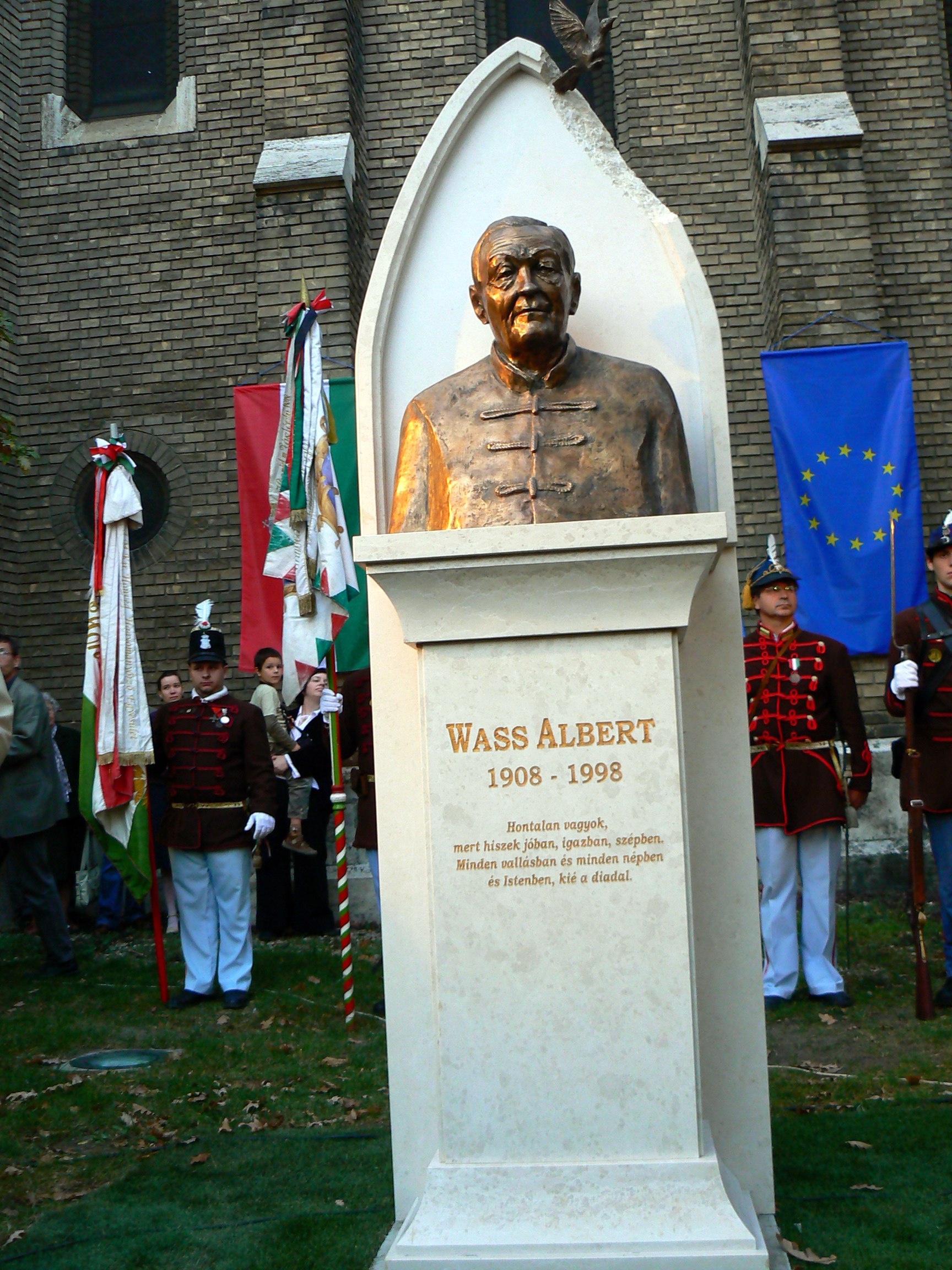 Albert Wass statue in Szeged. Sculptor: Klára Tóbiás (*1945) in 2008